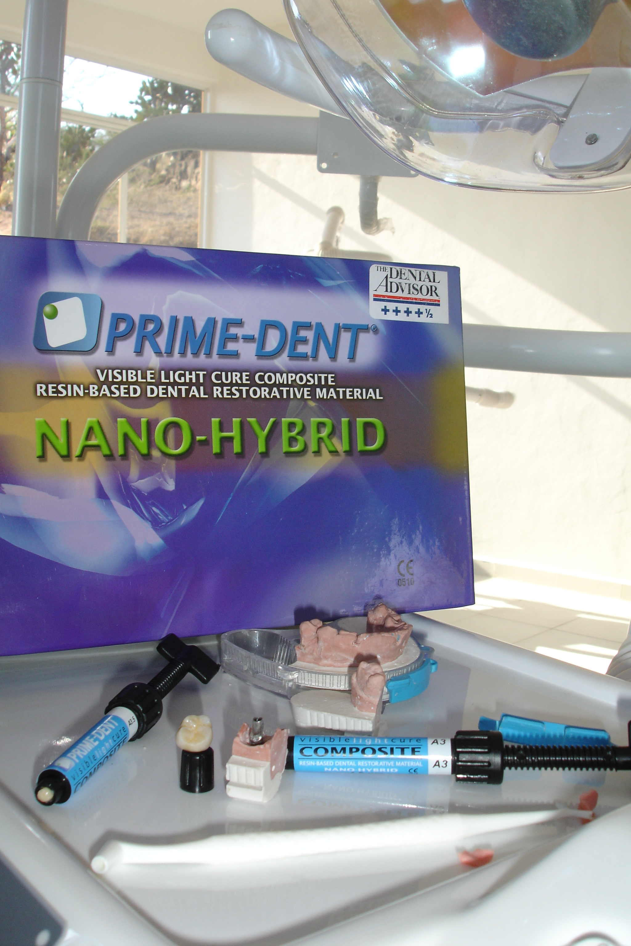 It is a work in Denimed Training Center Mexico, with the scientific support of Prime Dental MFG INC USA, which aims to spread the benefits of Hybrid Nano Resin Compost, promoting dental professionals an effective product for quality, weel price and Social Responsibility.